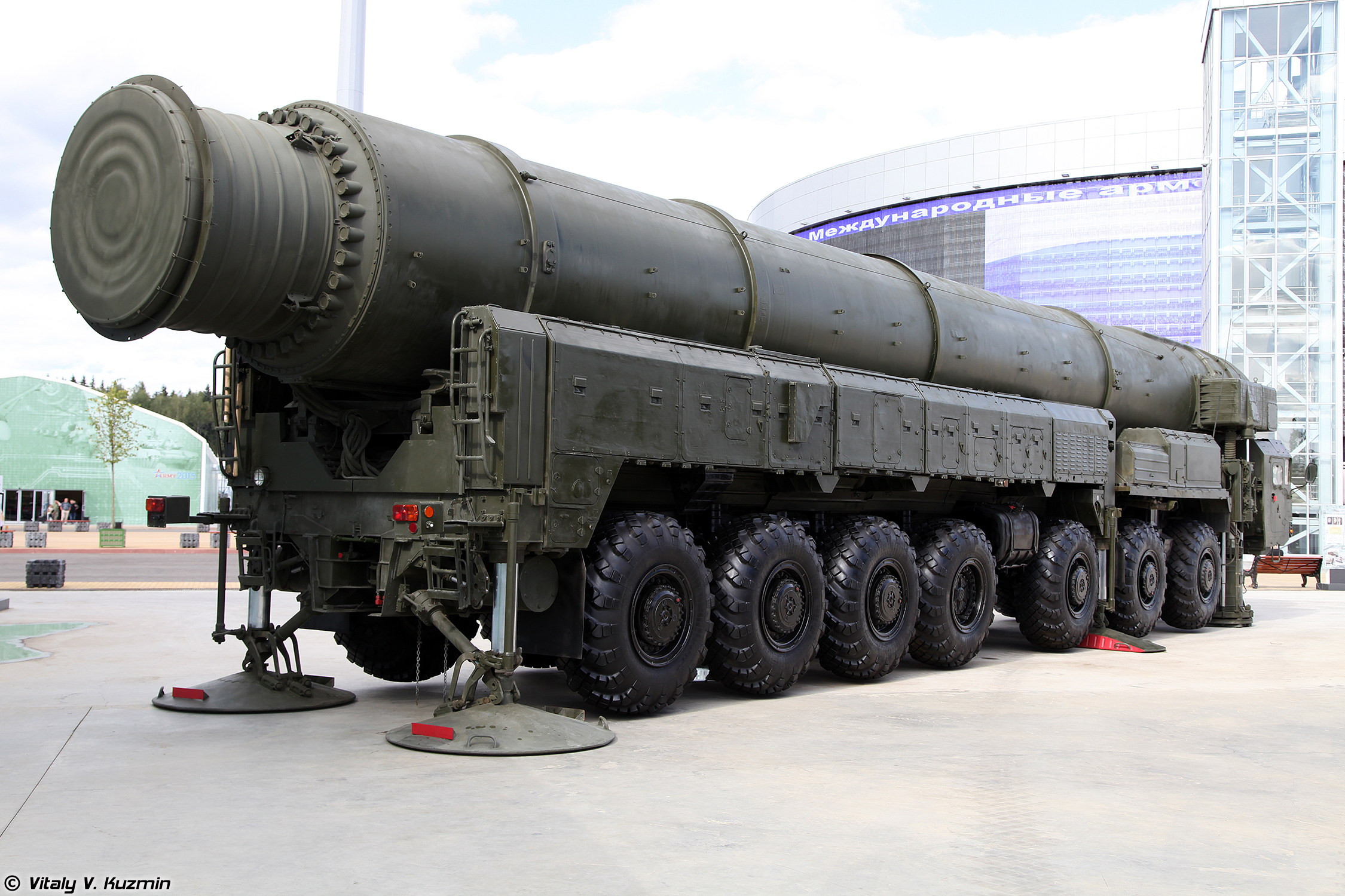 15U168 TEL 15P158 Topol ICBM